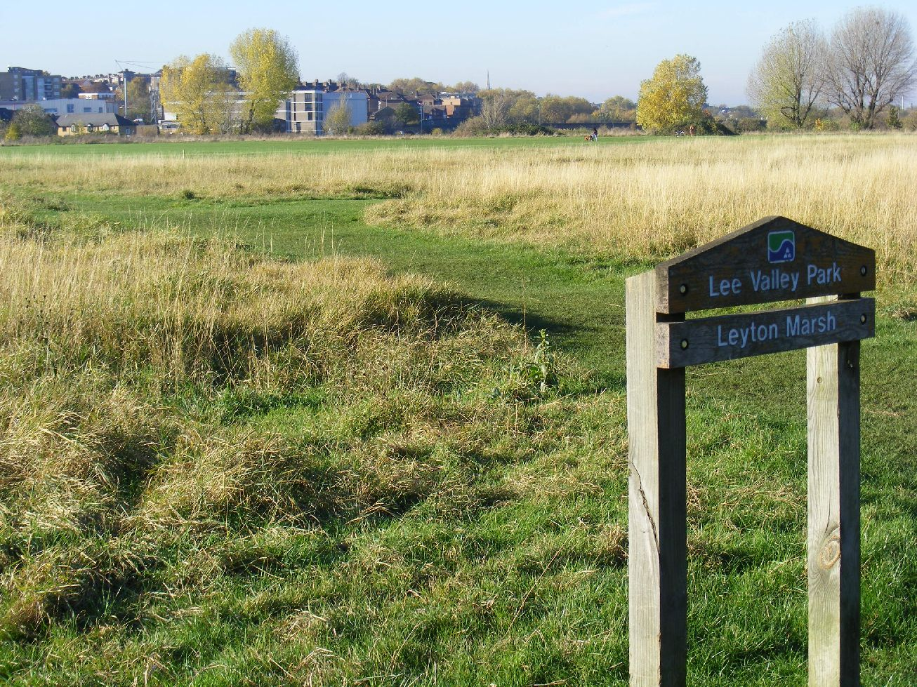 Image appears on flickr with a CC BY-SA 2.0 license: "Restored Leyton Marsh Restored Leyton Marsh after removal of olympic games basketball practice court"